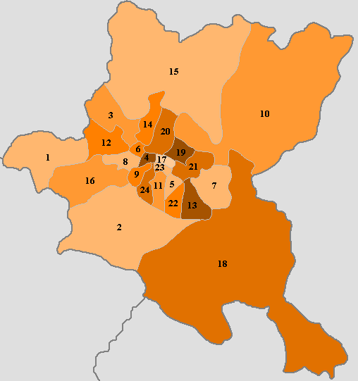 Administrative map of Sofia districts (Bulgaria)